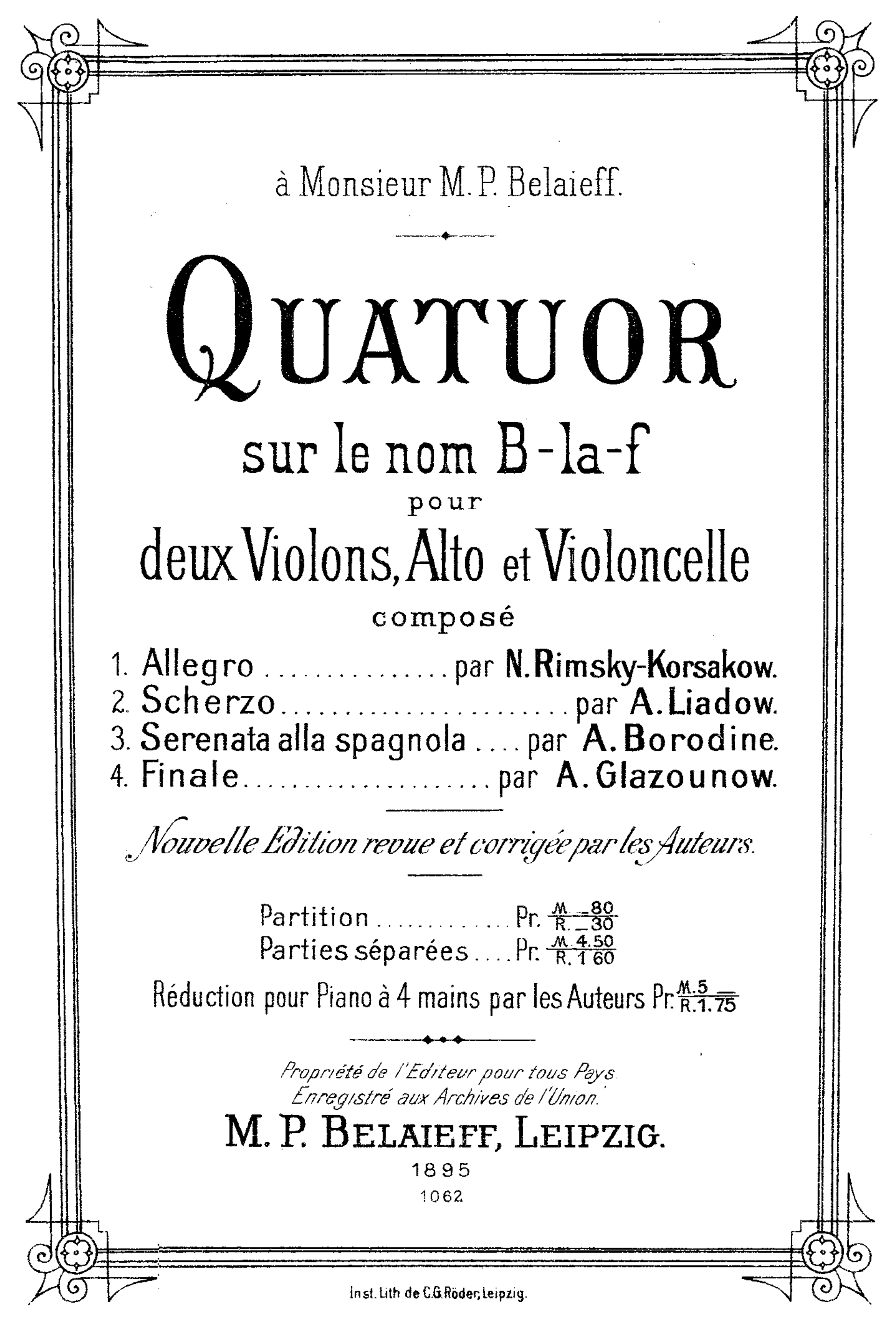 Front page of the first edition of the String Quartet on b-la-f theme.